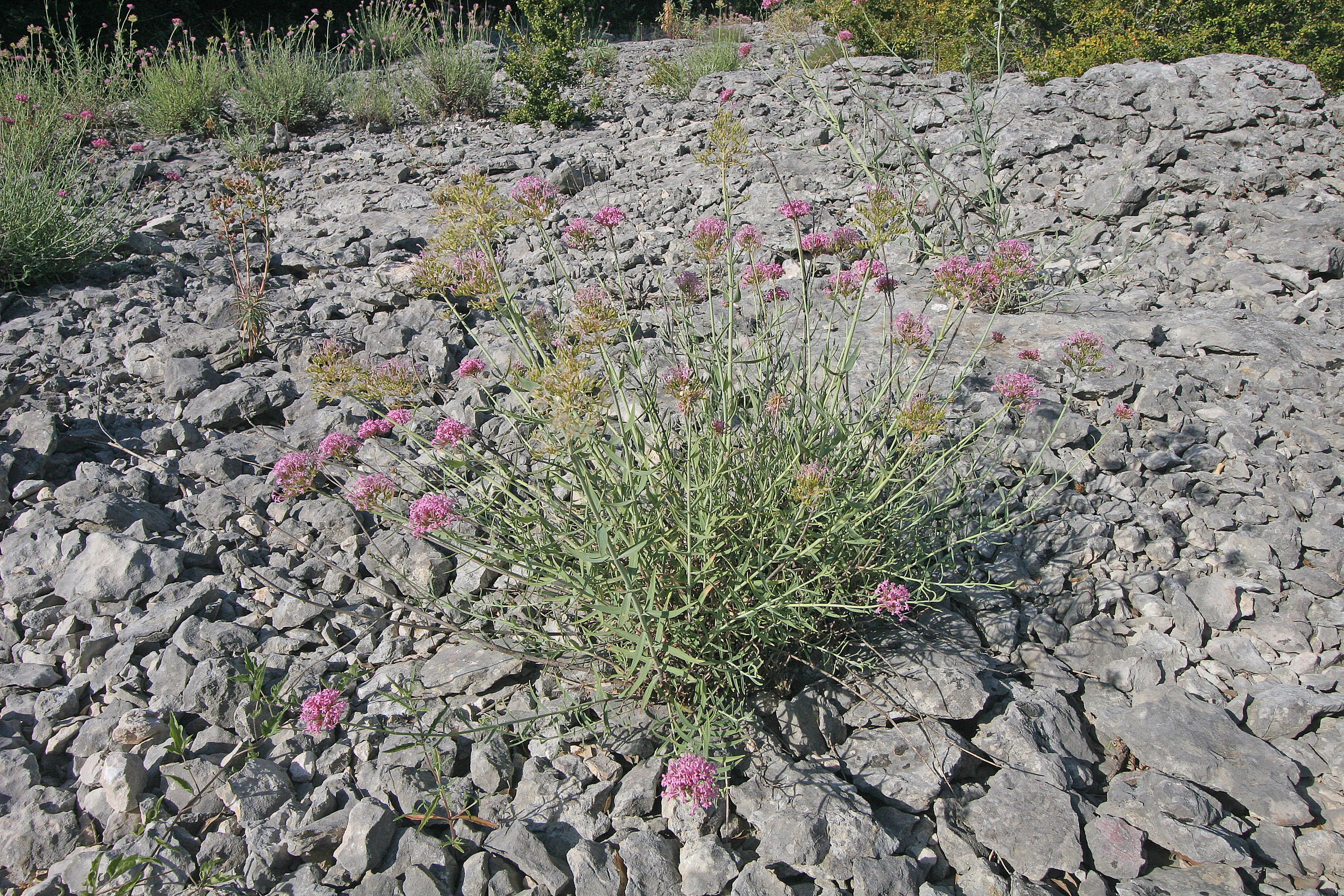 Plants in Ardeche